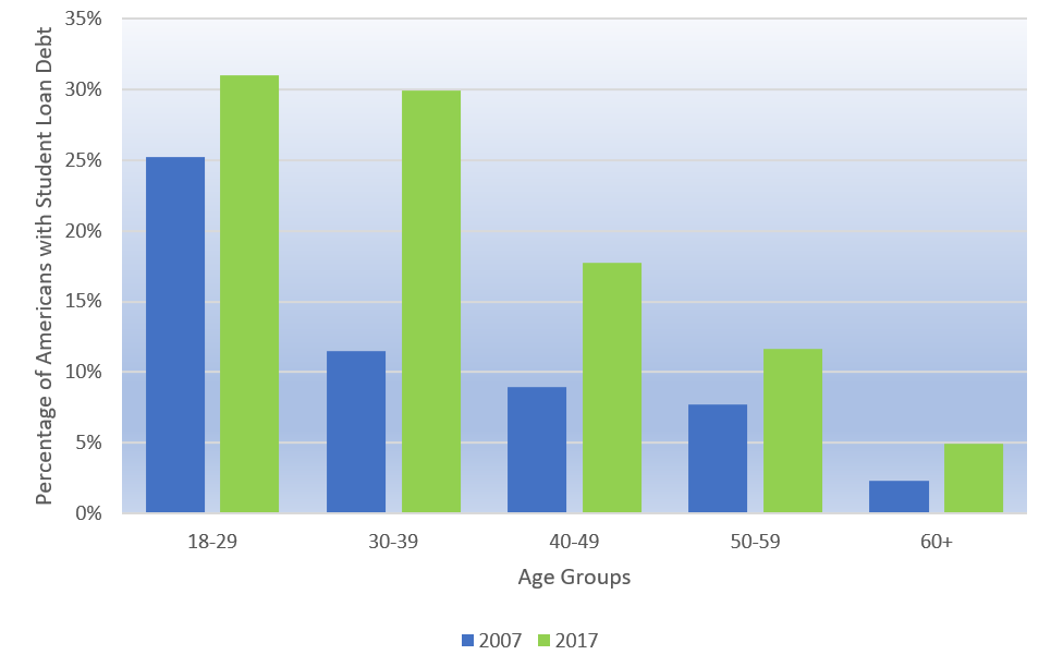 percentage of Americans in different age groups with student loan debt, comparison between 2007 and 2017; main data